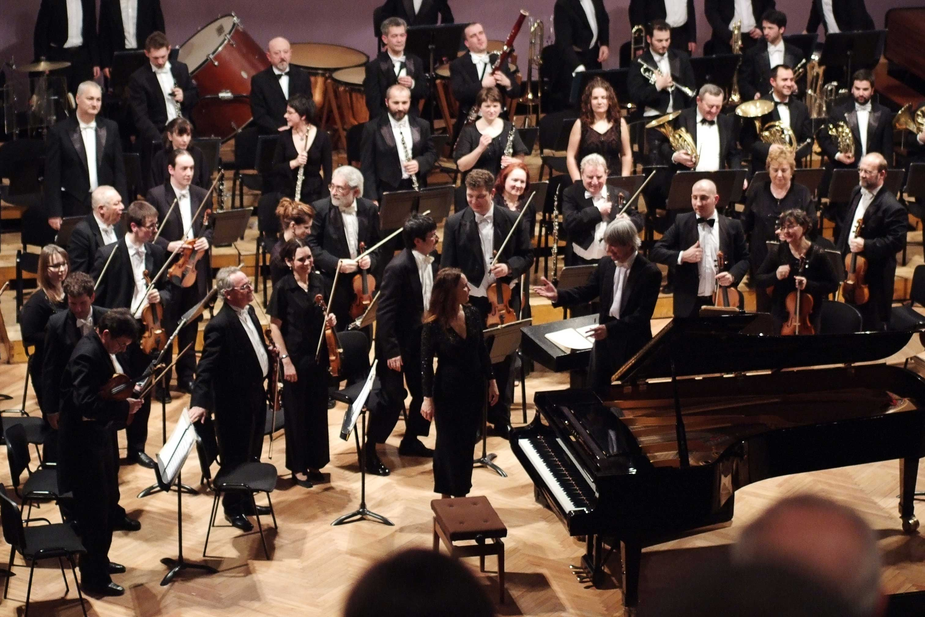 Rachmaninov concert(Paganini-Rhapsody) 2010 in Târgu Mureş (Neumarkt)Romania